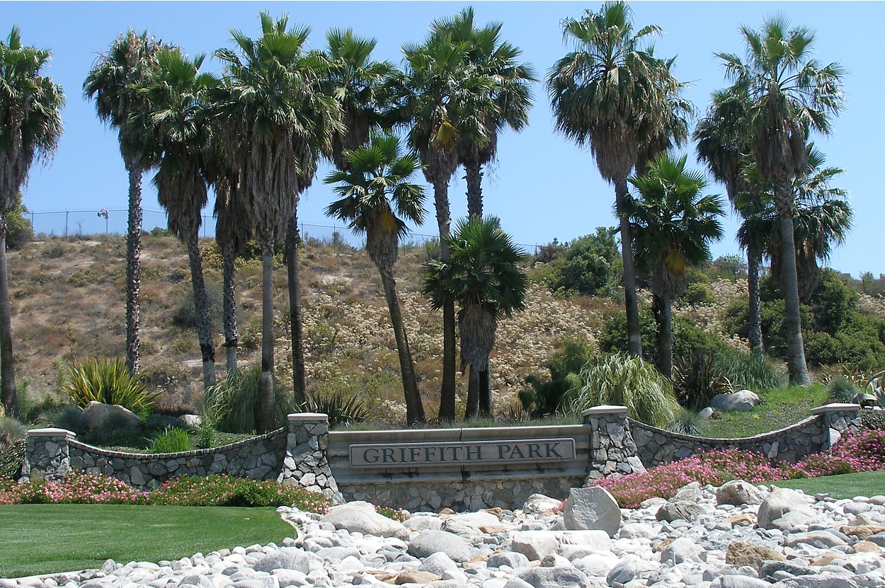 The Griffith Park welcome sign. It is located at the intersection of Forest Lawn Drive and Zoo Drive at the northwest corner of the park.